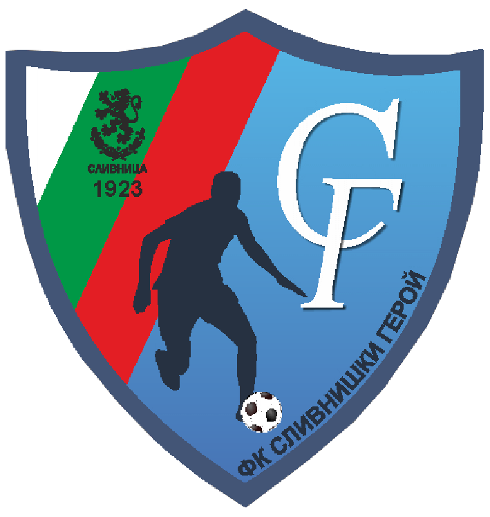 New logo of FC Slivnishki geroi, Slivnitsa, Bulgaria.